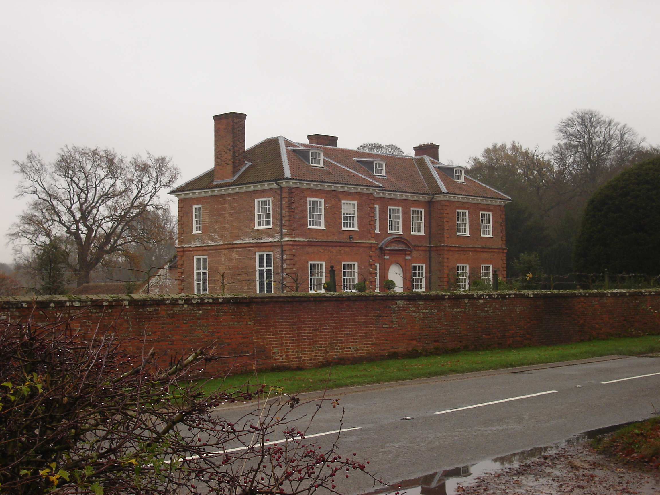 Aylsham Old Hall is a Grade II listed on the Blickling estate close to the B1354 road Aylsham Road, Norfolk